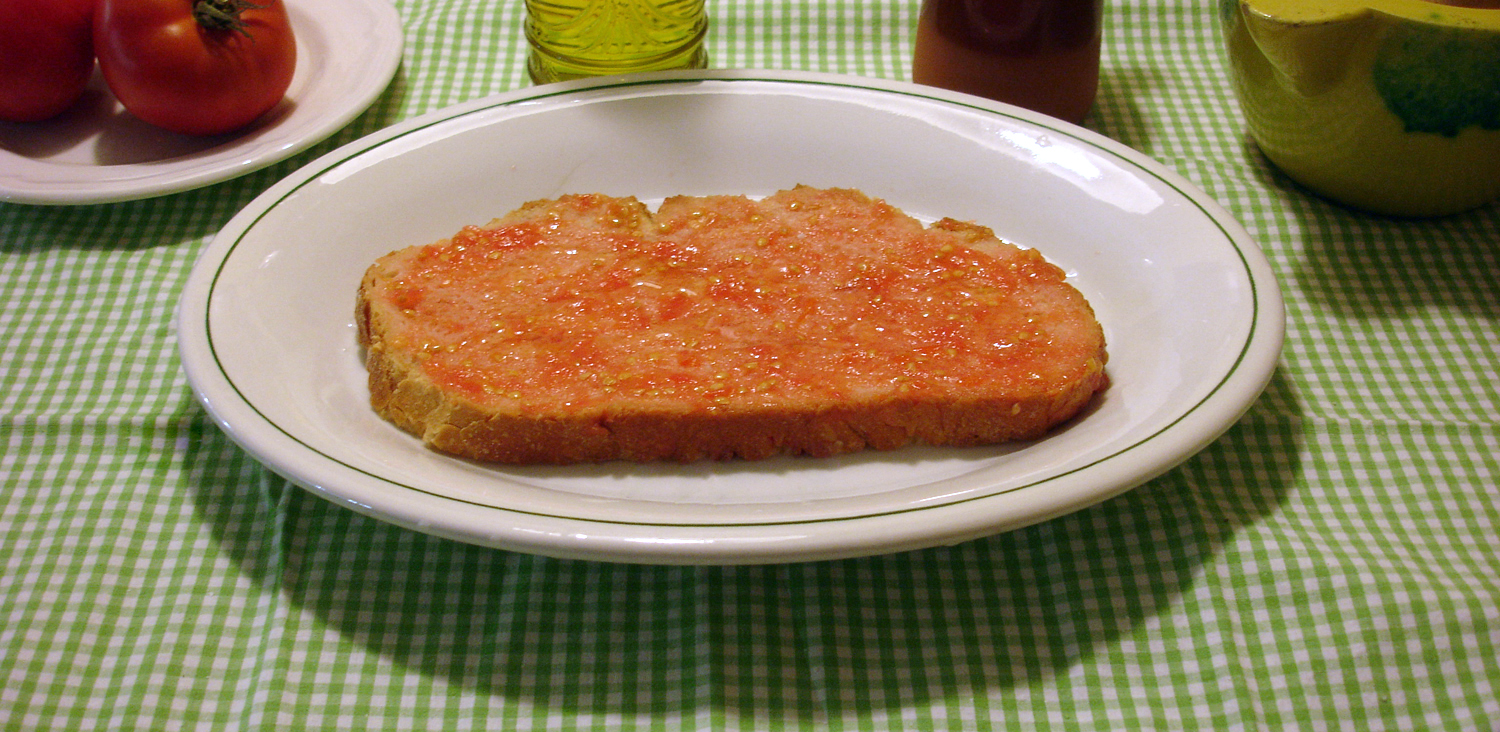 Pa amb tomàquet - Literally: bread with tomato (Cuisine of Catalonia)